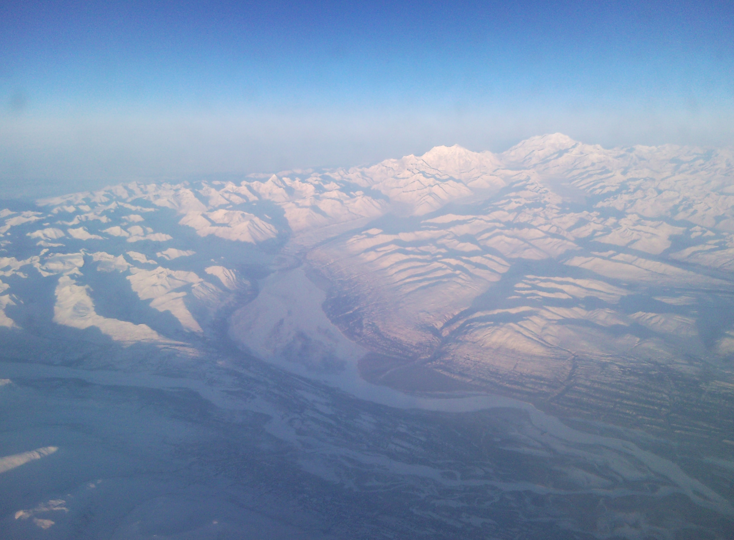 Mt. McKinley from 37,000 ft